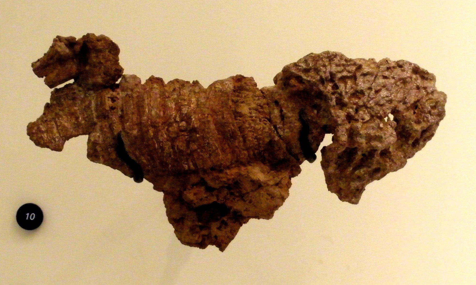 crop of file in file name